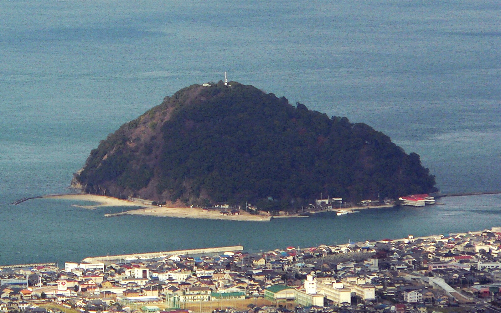 Hojyo-kashima in Matsuyama, Ehime pref., Japan.